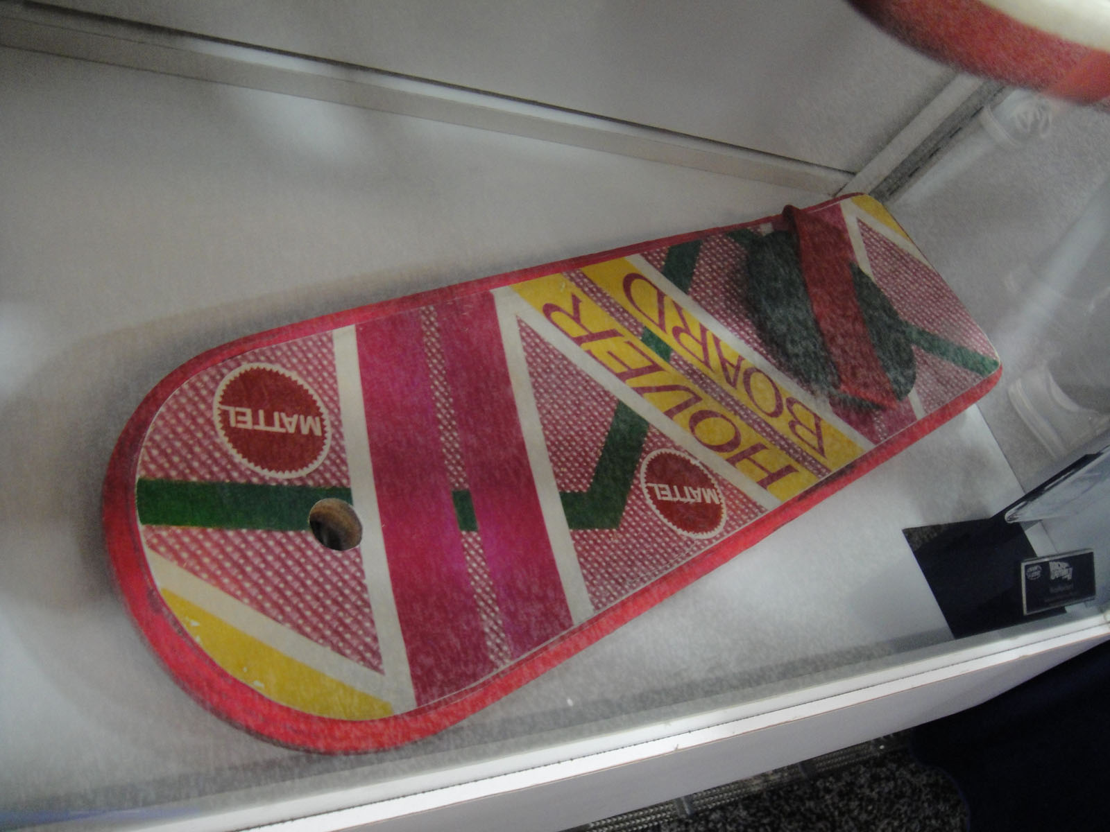 Marty's hoverboard from the film Back to the Future Part II displayed at the 2011 Comic-Con International.